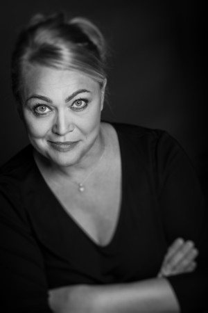 Anna-Sofia Winroth